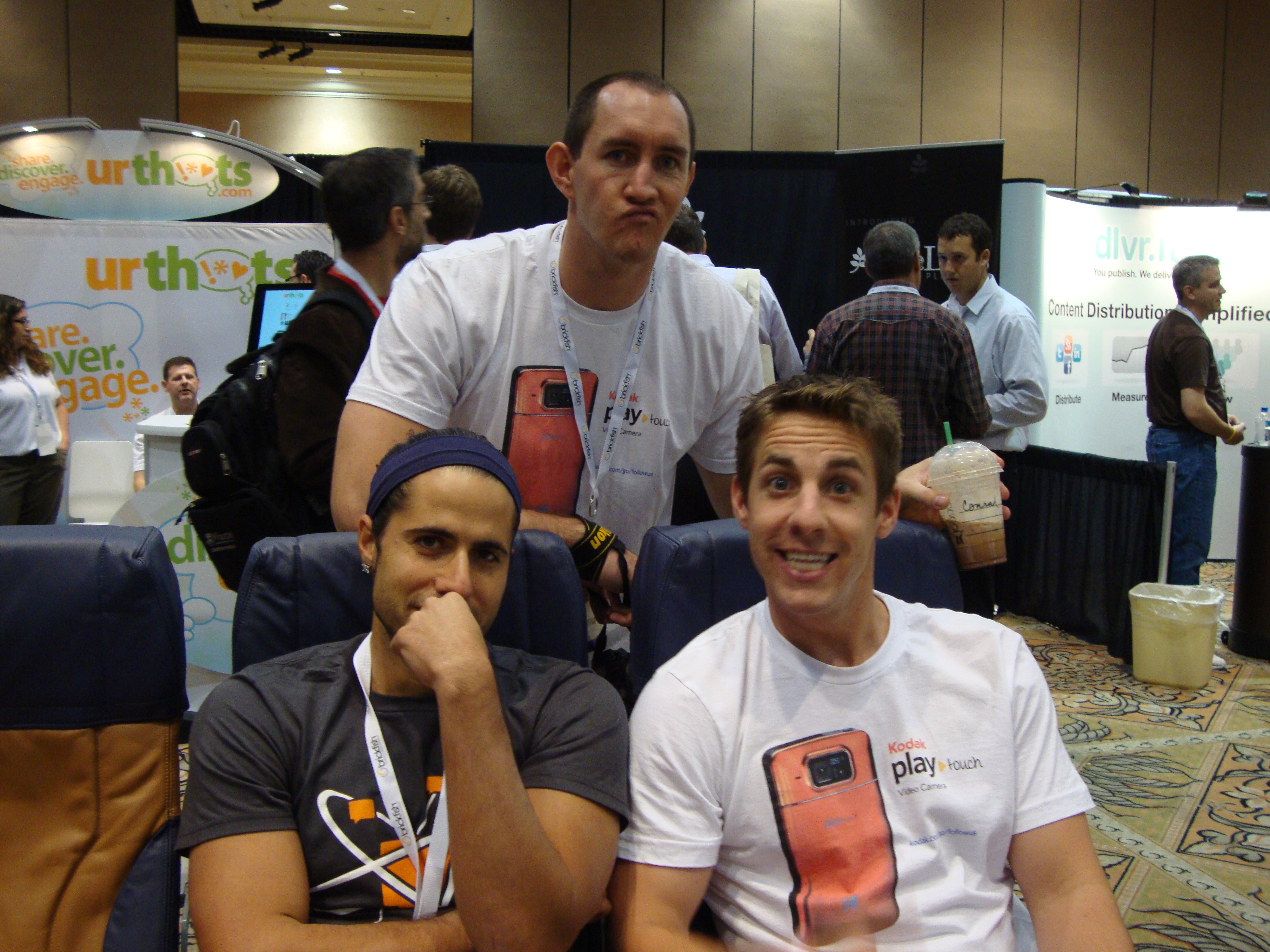 Jason Sadler (in the back) and other people from I Wear Your Shirt